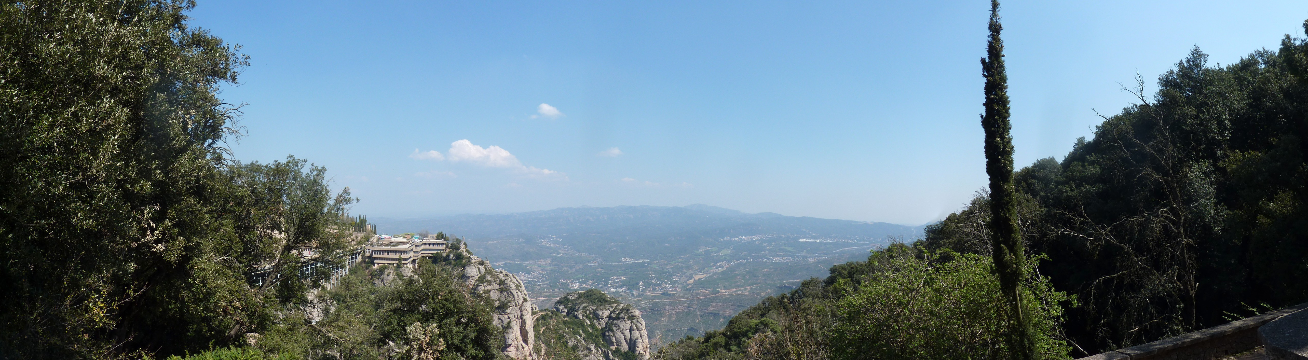 Panorama taken from the Montserrat mountain.